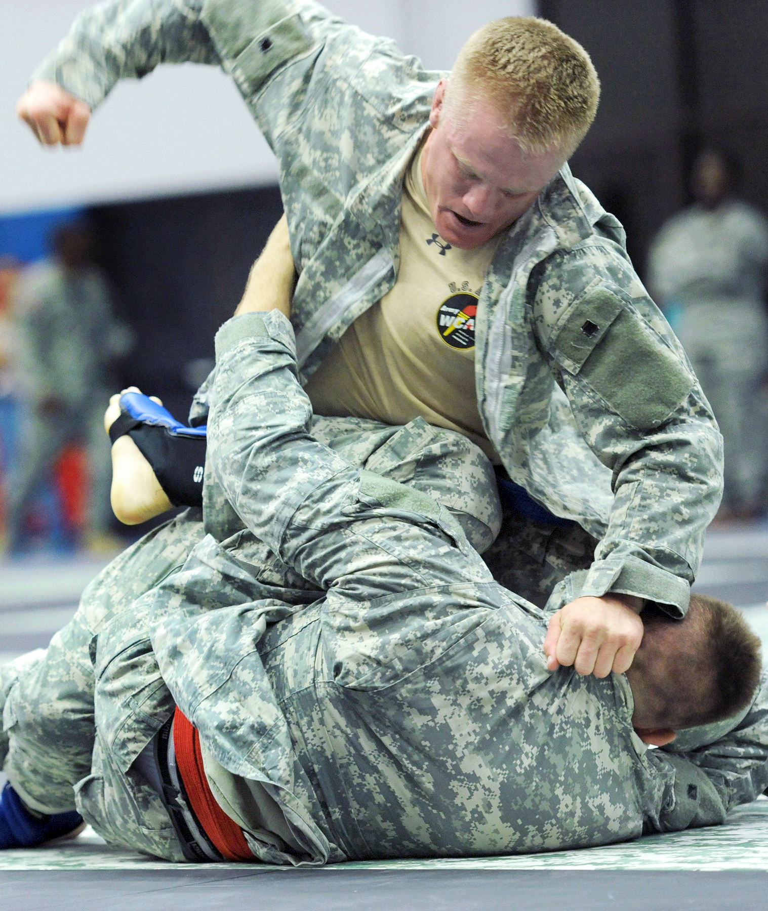 Army Capt. Jon Anderson, top, strikes Army Spc. Kevin Kent, bottom, during the 2012 U.S. Army Combatives Championship competition on Fort Hood, Texas, July 26, 2012.